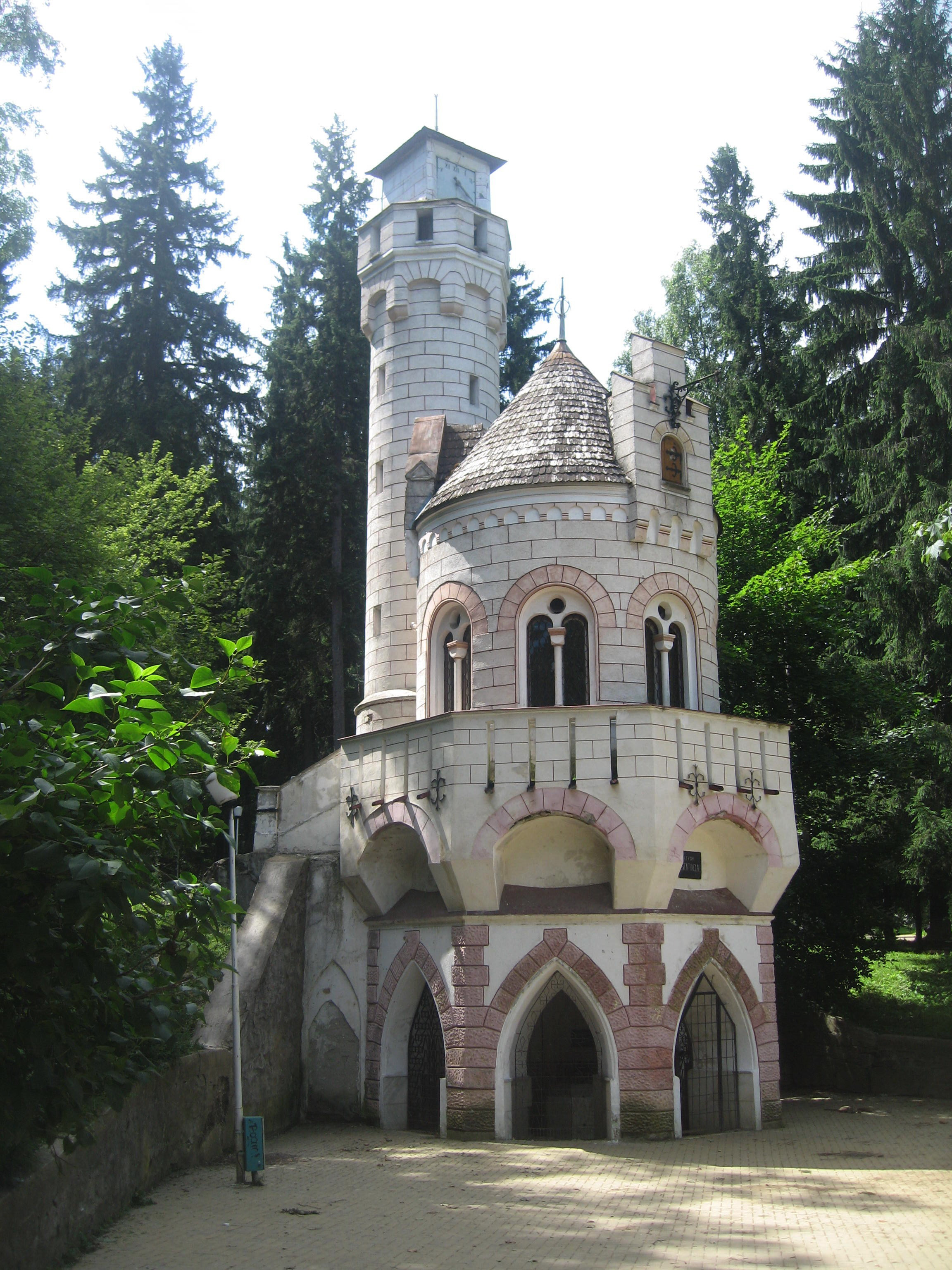 Sentinela Fountain in Vatra Dornei, Romania